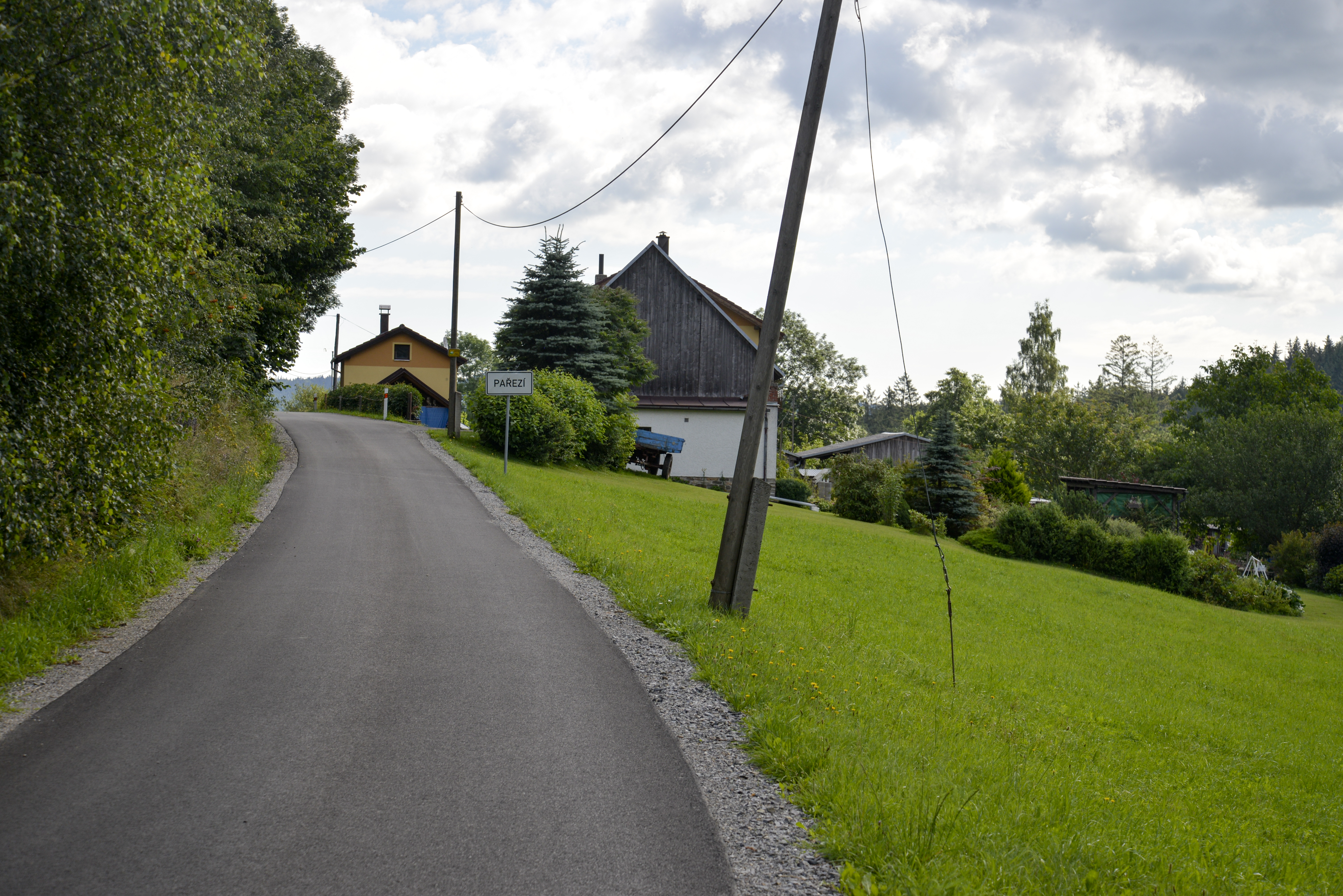 Pařezí - small village, part of Petrovice u Sušice in Klatovy Districk